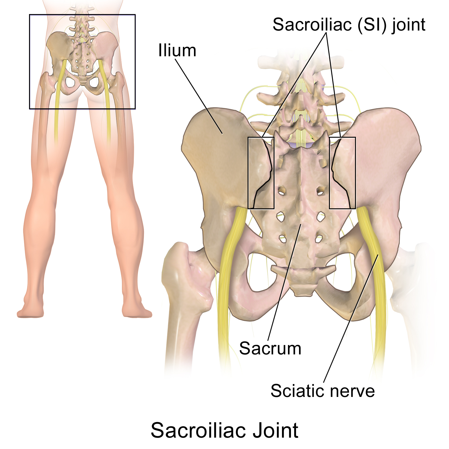 Sacroiliac Joint. See a full animation of this medical topic.